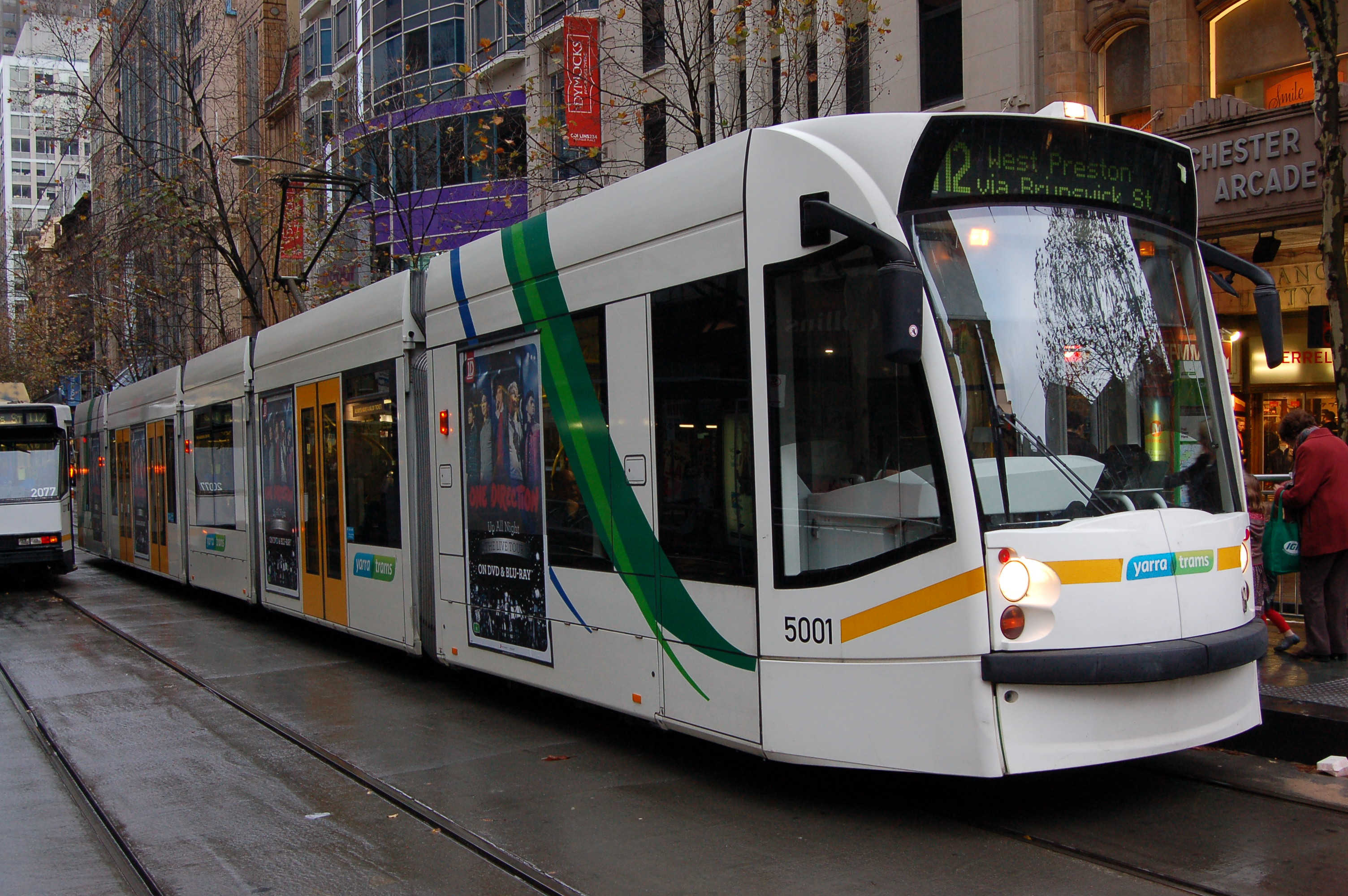 D2 class tram class leader no 5001 operating a route 112 service from St Kilda to West Preston via Collins Street in Melbourne, Australia. The tram is embarking passengers at the Superstop just west of the intersection between Collins Street and Swanston Street.